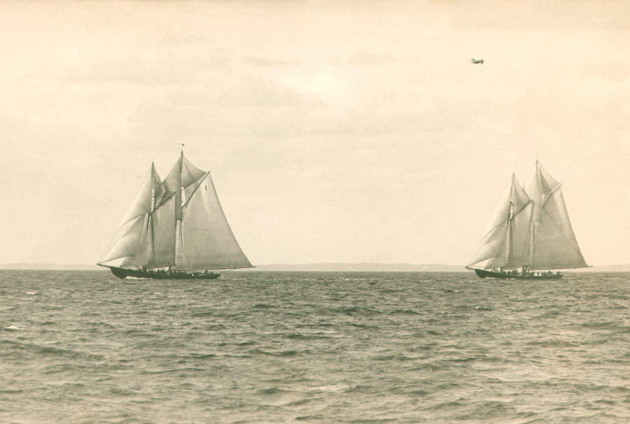 Gaff schooners Bluenose (sail No. 1) and Henry Ford (sail No. 7) during 1922 International Fishermen's Cup race